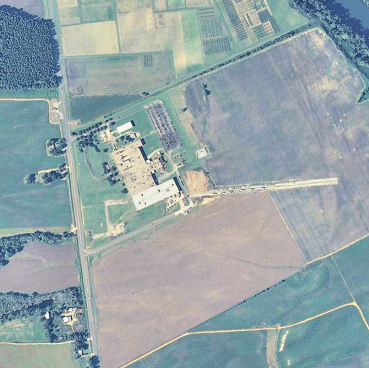 USGS digital orthophoto of Tallassee Airport in Alabama